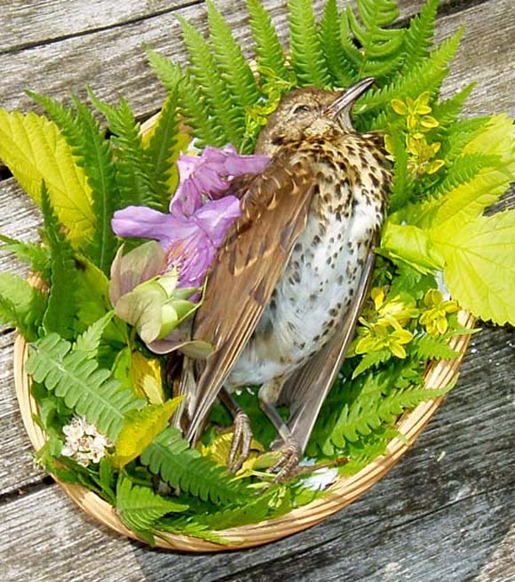 A dead Song Thrush (Turdus philomelos) in a basket decorated with ferns and flowers. "This may be the answer to our male songthrush's long vigil (story) - - his mate perhaps, found dead on the grass. In view of his performance I gave her a special burial."